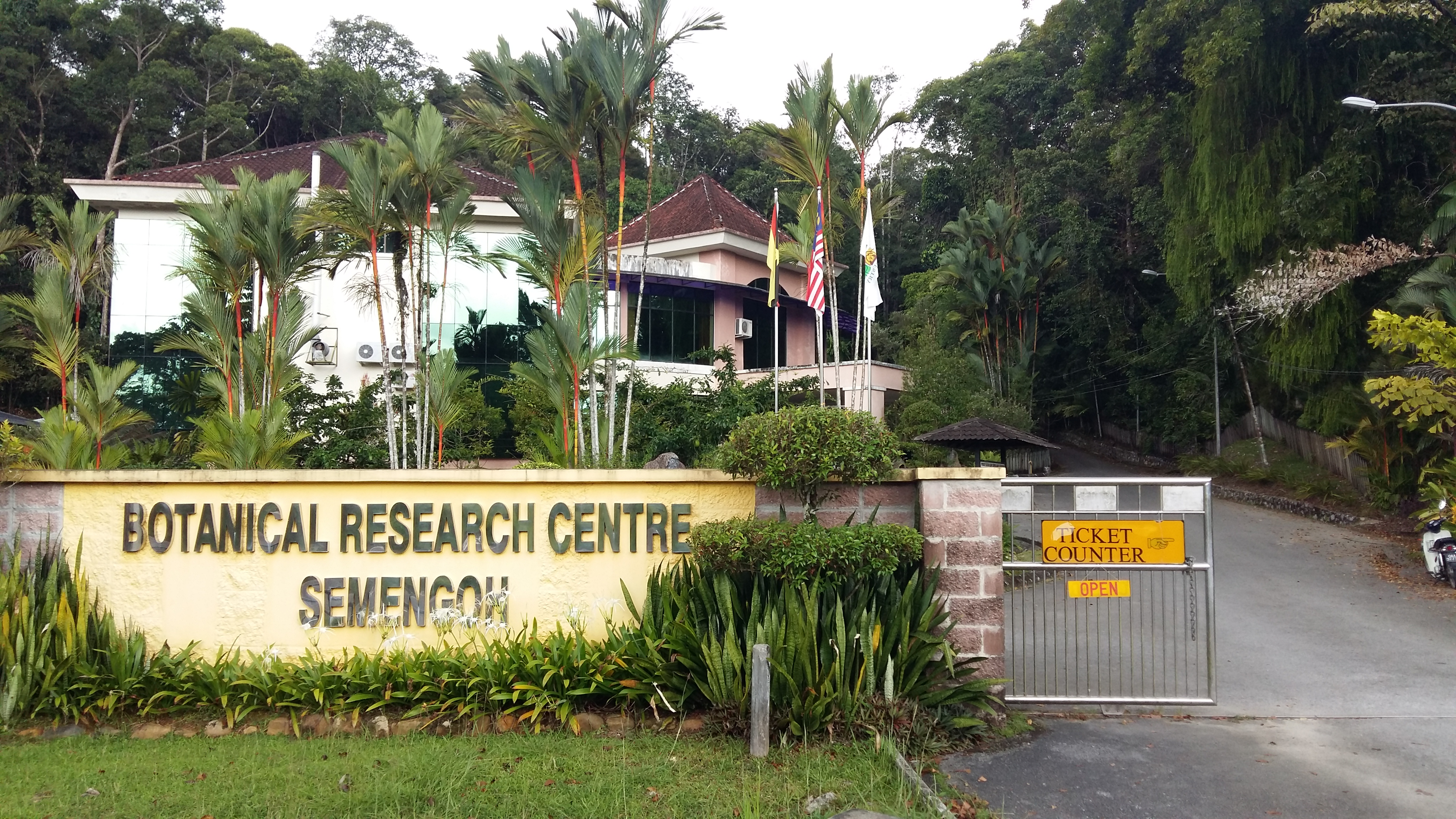 Main entrance into Semenggoh Wildlife Centre, Sarawak